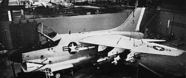 A mockup at the Ling-Temco-Vought company of the A-7A Corsair in 1964.